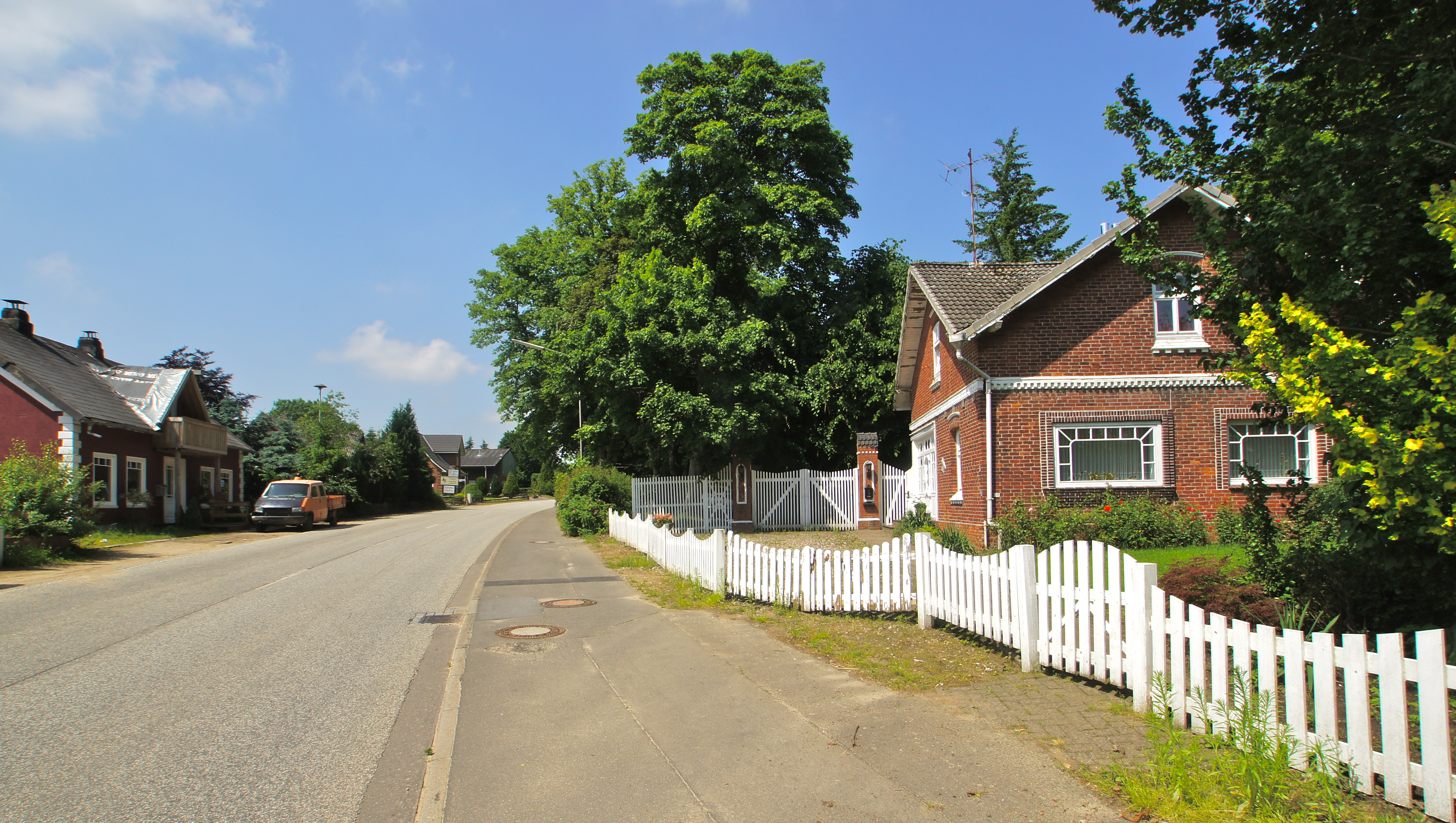 Kleve (Steinburg), Germany: High Street